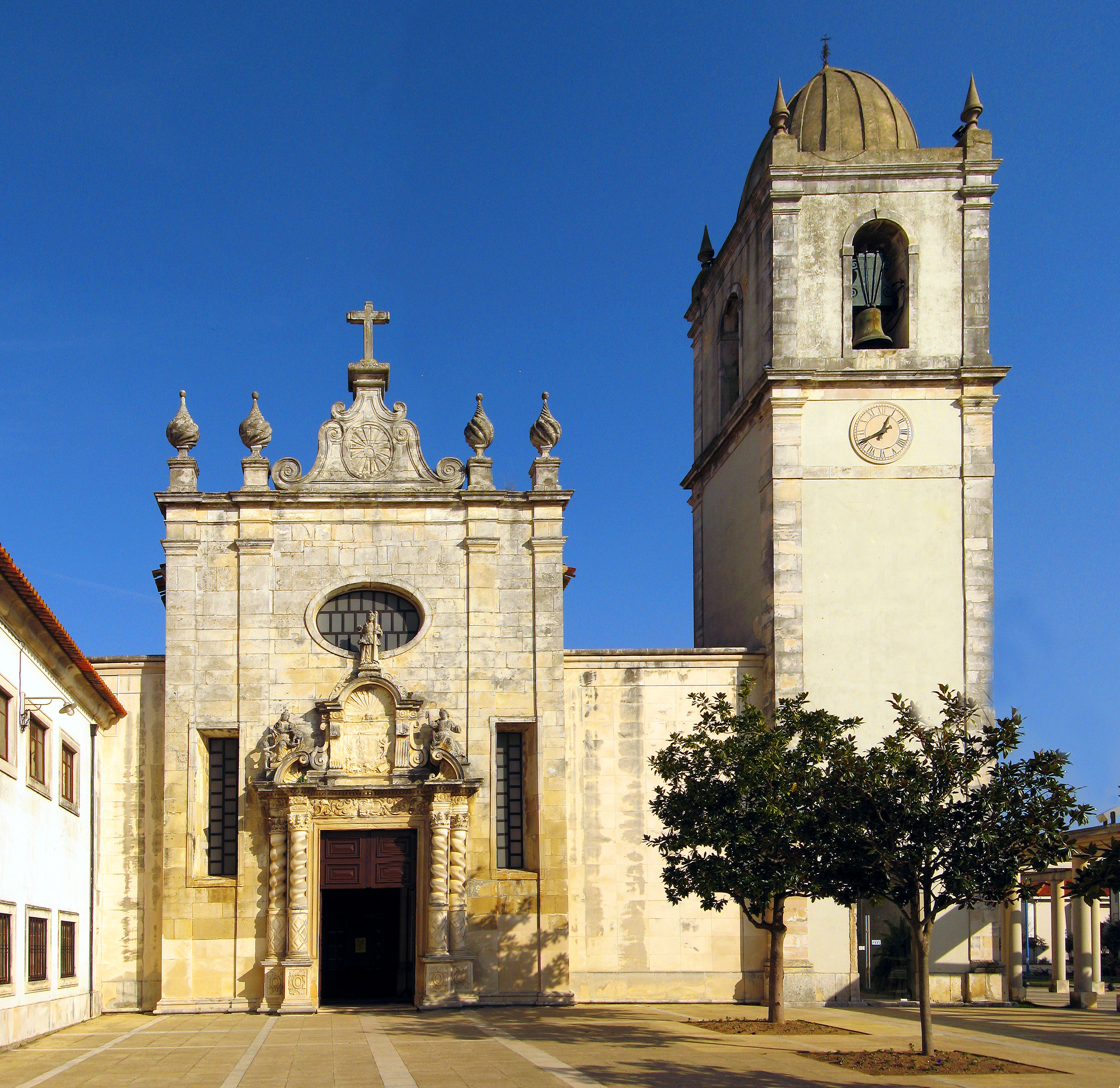 The Catedral da Sao Domingos at Aveiro